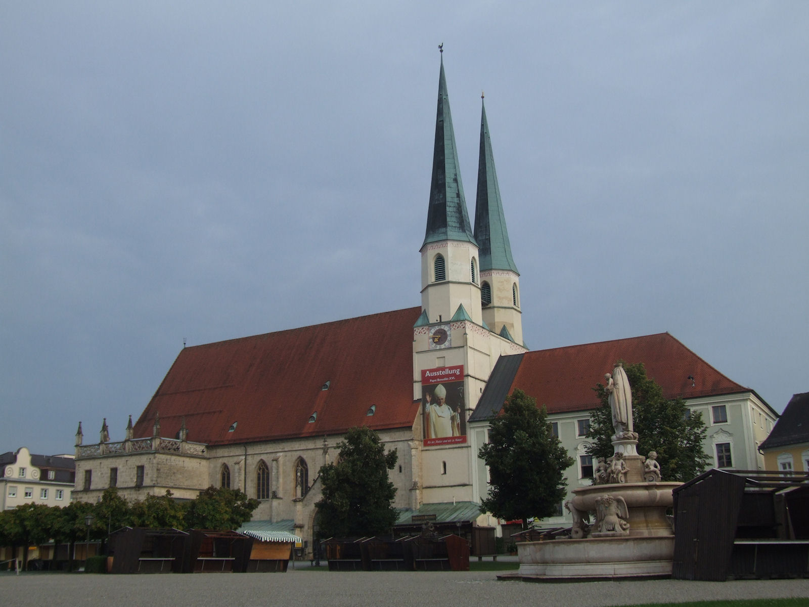 Stiftspfarrkirche St. Philipp und Jakob Native nameStiftspfarrkirche St. Philipp und Jakob (Altötting)LocationAltötting, Upper Bavaria, GermanyCoordinates48° 13′ 31.85″ N, 12° 40′ 34.68″ E Authority control : Q1029917 institution QS:P195,Q1029917